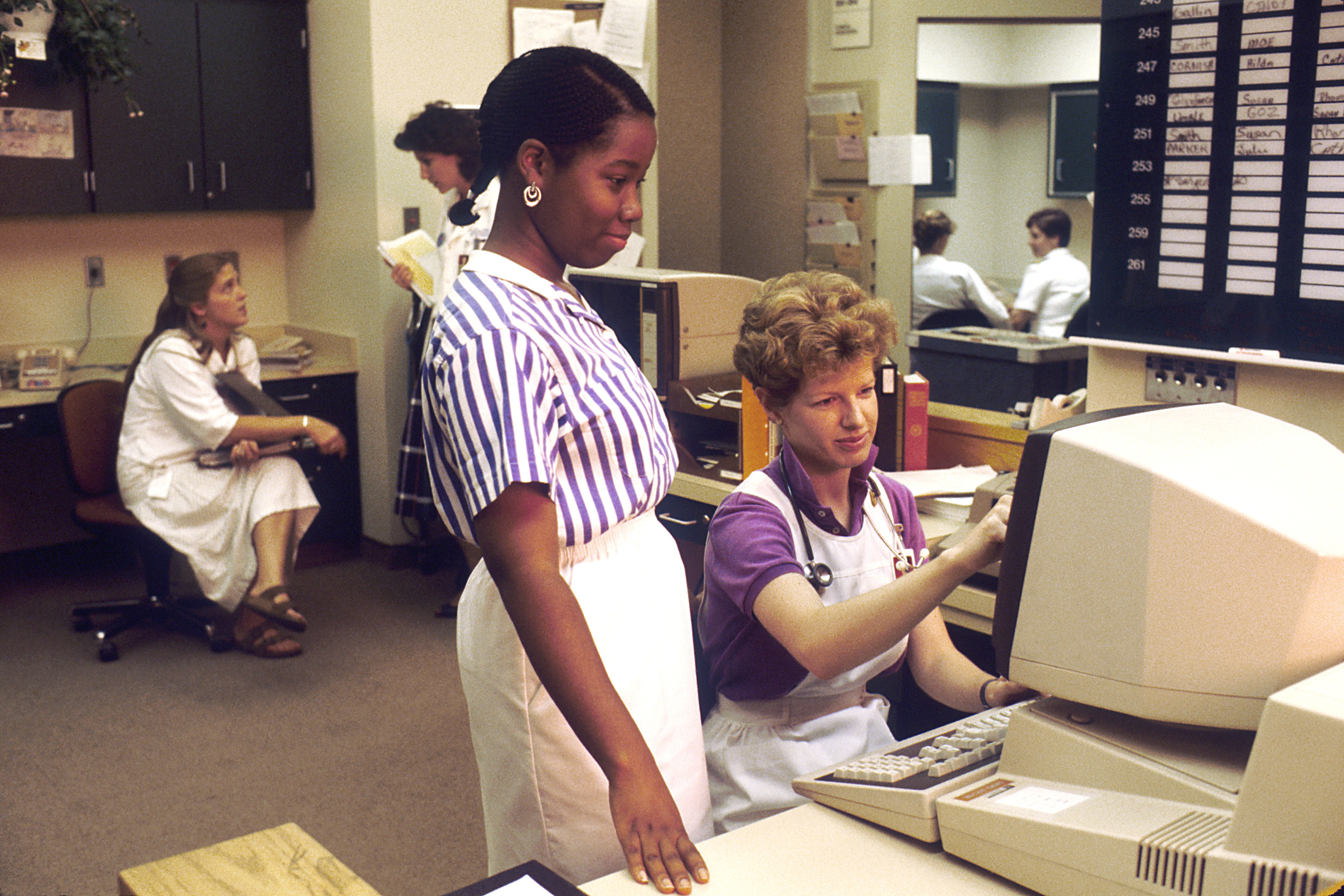 Several nurses in a nurses' station, two of which are working on a computer accessing PDQ. Physicians Data Query was designed by the National Cancer Institute to help physicians and patients obtain information on protocols, physician referrals and clinics using the most up-to-date cancer treatments.